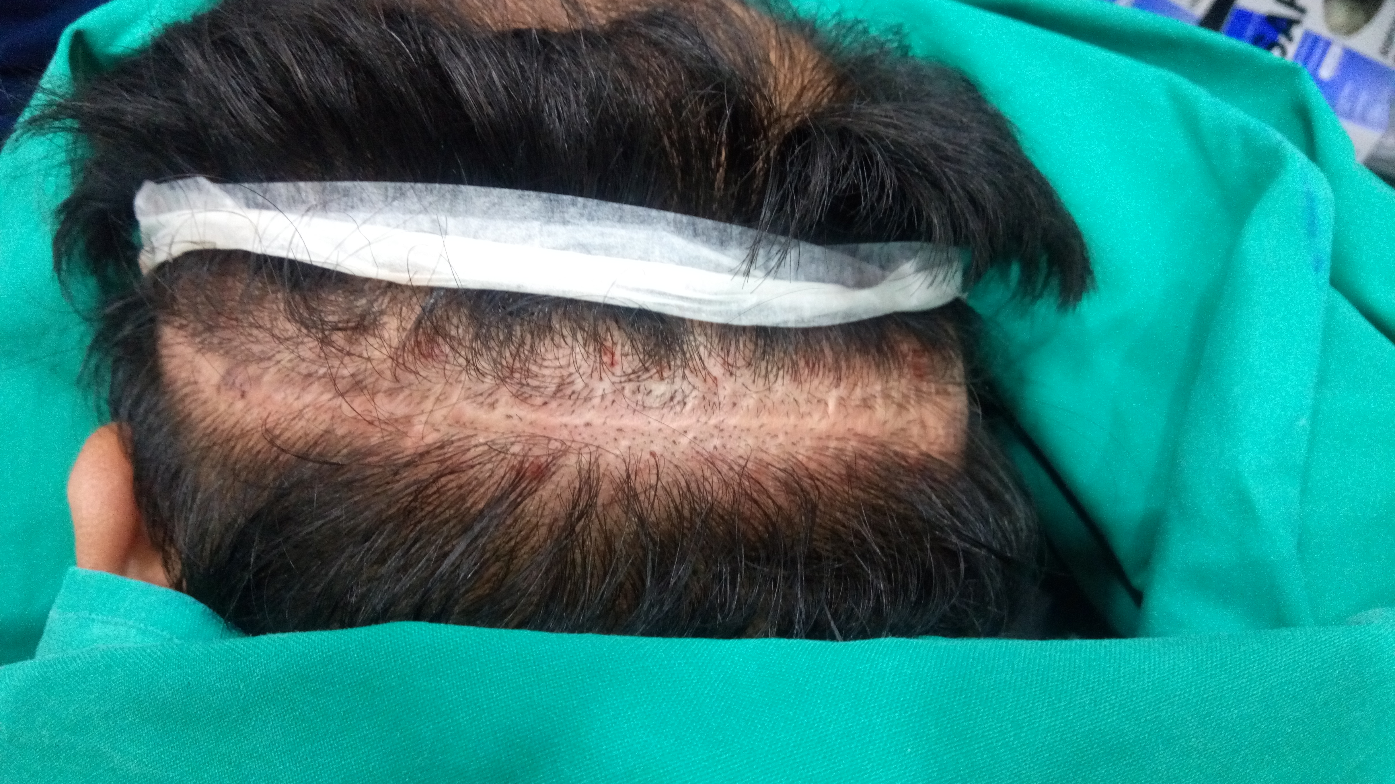 Area selected for micro pigmentation. Scar line is obvious on back of the head.